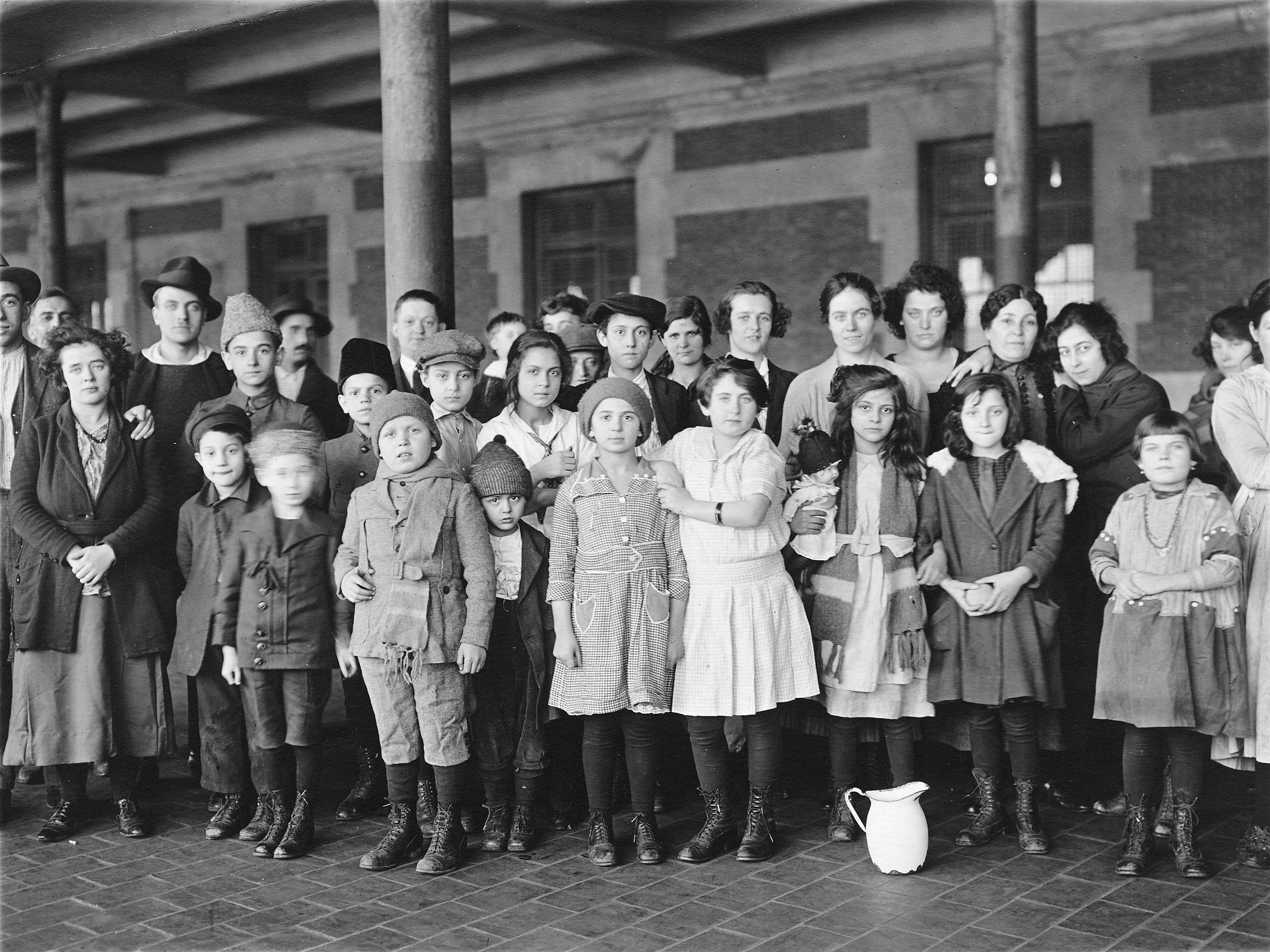 Immigrant children, Ellis Island, New York.